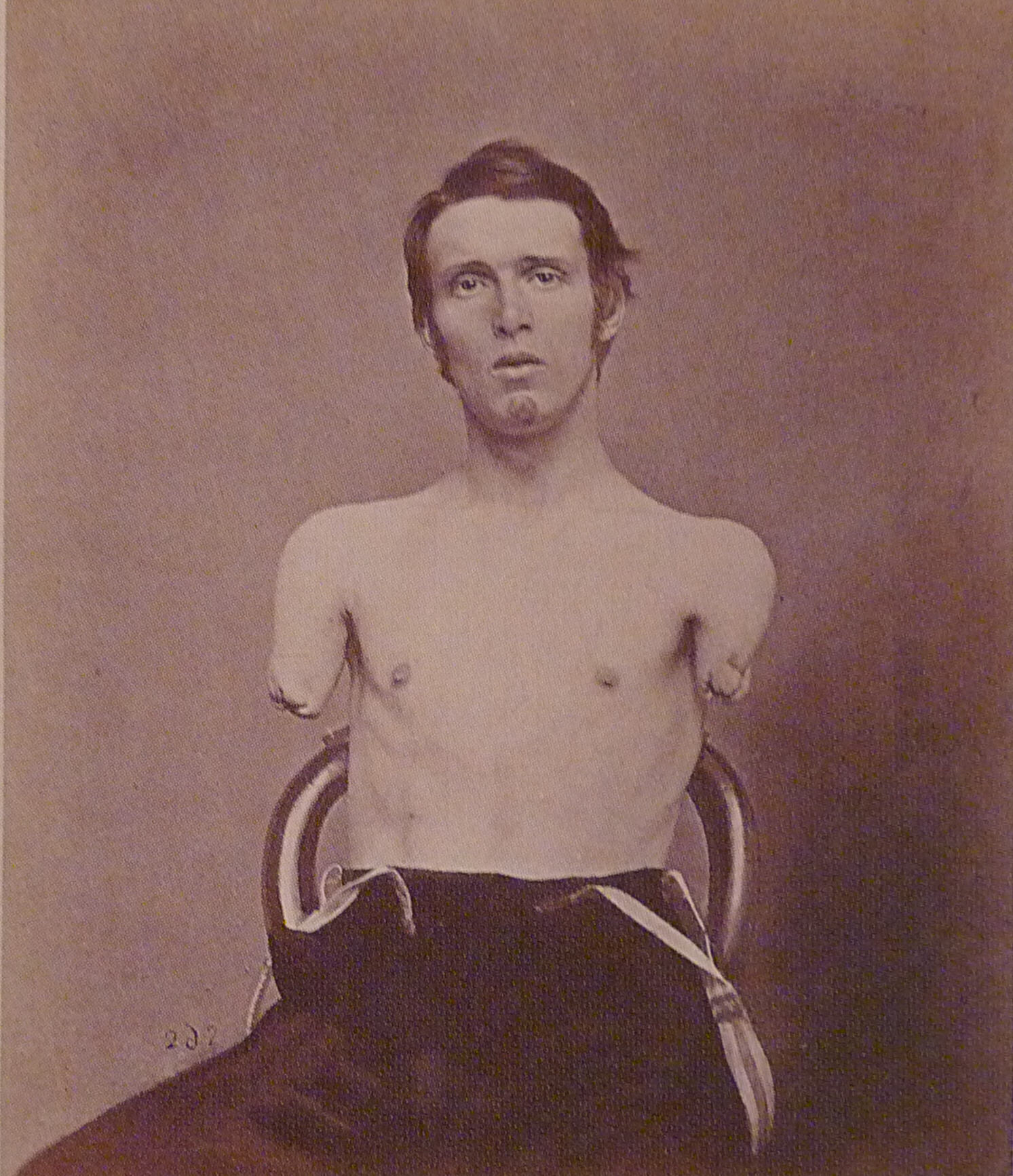 Alfred A. Stratton lost both his arms at age 19 on 18 June 1864 by a cannon shot in the American Civil War. The amputation was performed by AS Coe. Stratton died as a father of two at the age of 29..